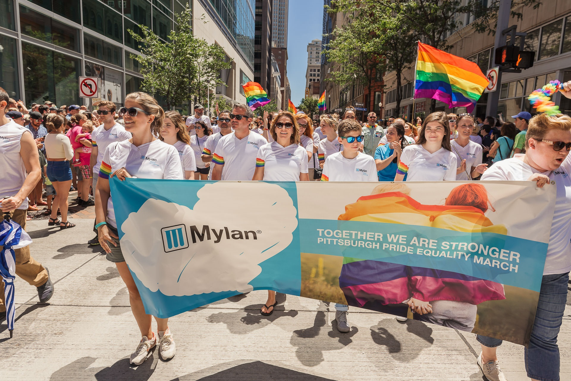 Mylan CEO Heather Bresch Marches at the 2016 Pittsburgh Pride Equality March